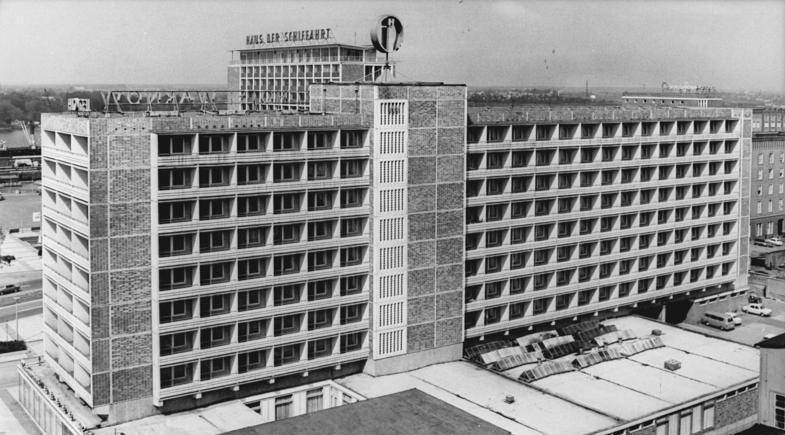 Rostock, Hotel "Warnow" Zentralbild Sindermann Go-Ja 5.6.70 Rostock: Interhotel-Warnow Information added by Wikimedia users.